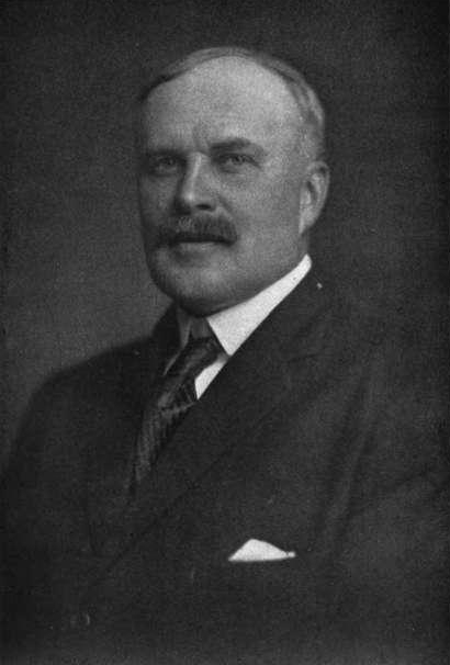 Photo of William Reuben George (founder of the George Junior Republics)